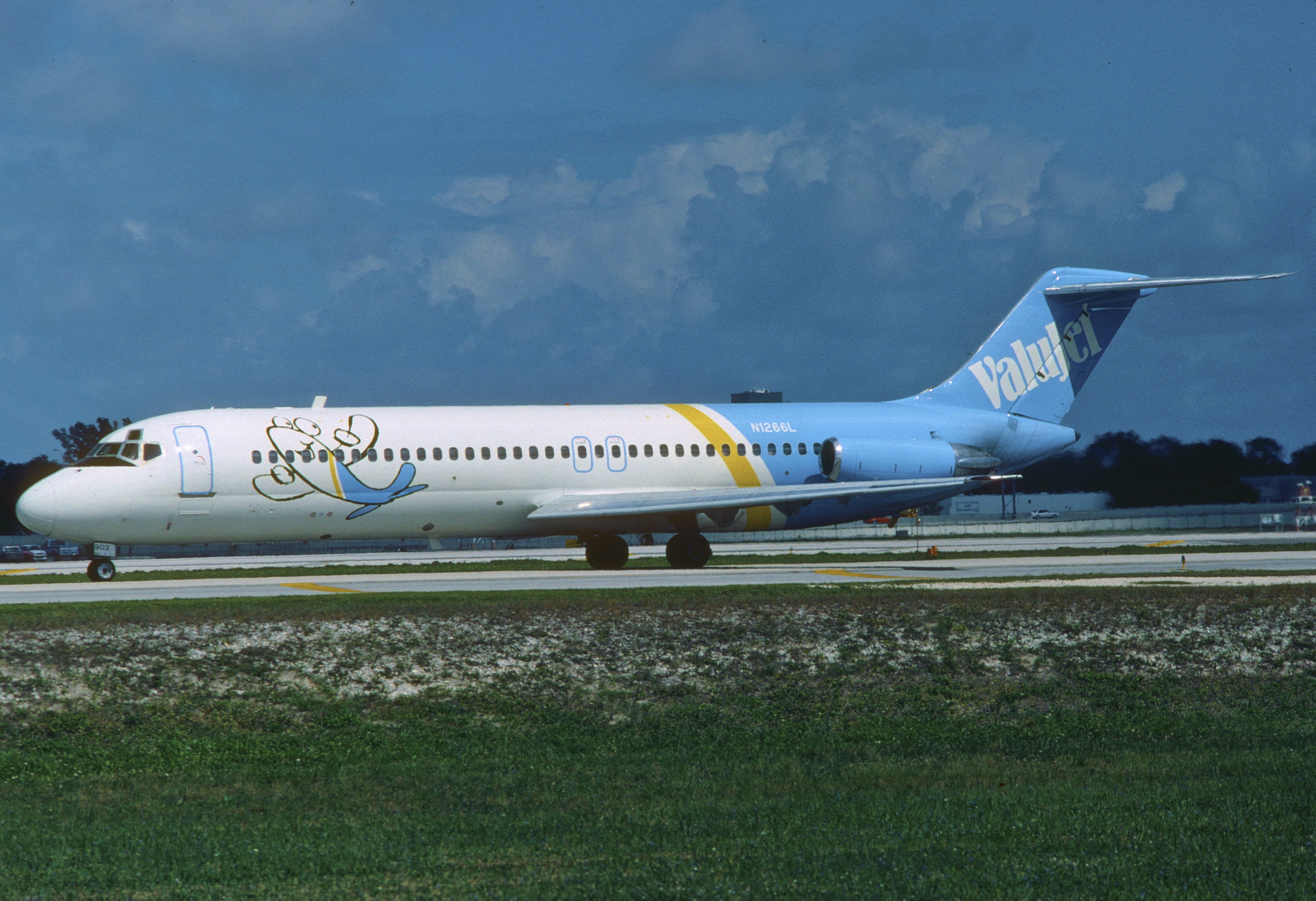 ValuJet DC-9-32; N1266L@FLL, February 1994